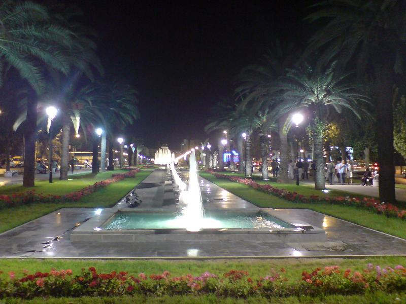 Hassan 2 Street in Fes, Morocco at Night.